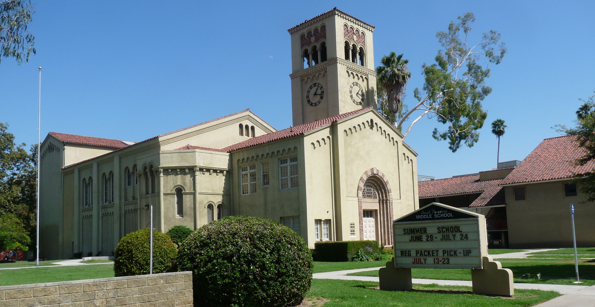 South Pasadena Middle School, formerly South Pasadena Junior High School. South Pasadena, Los Angeles County, California.